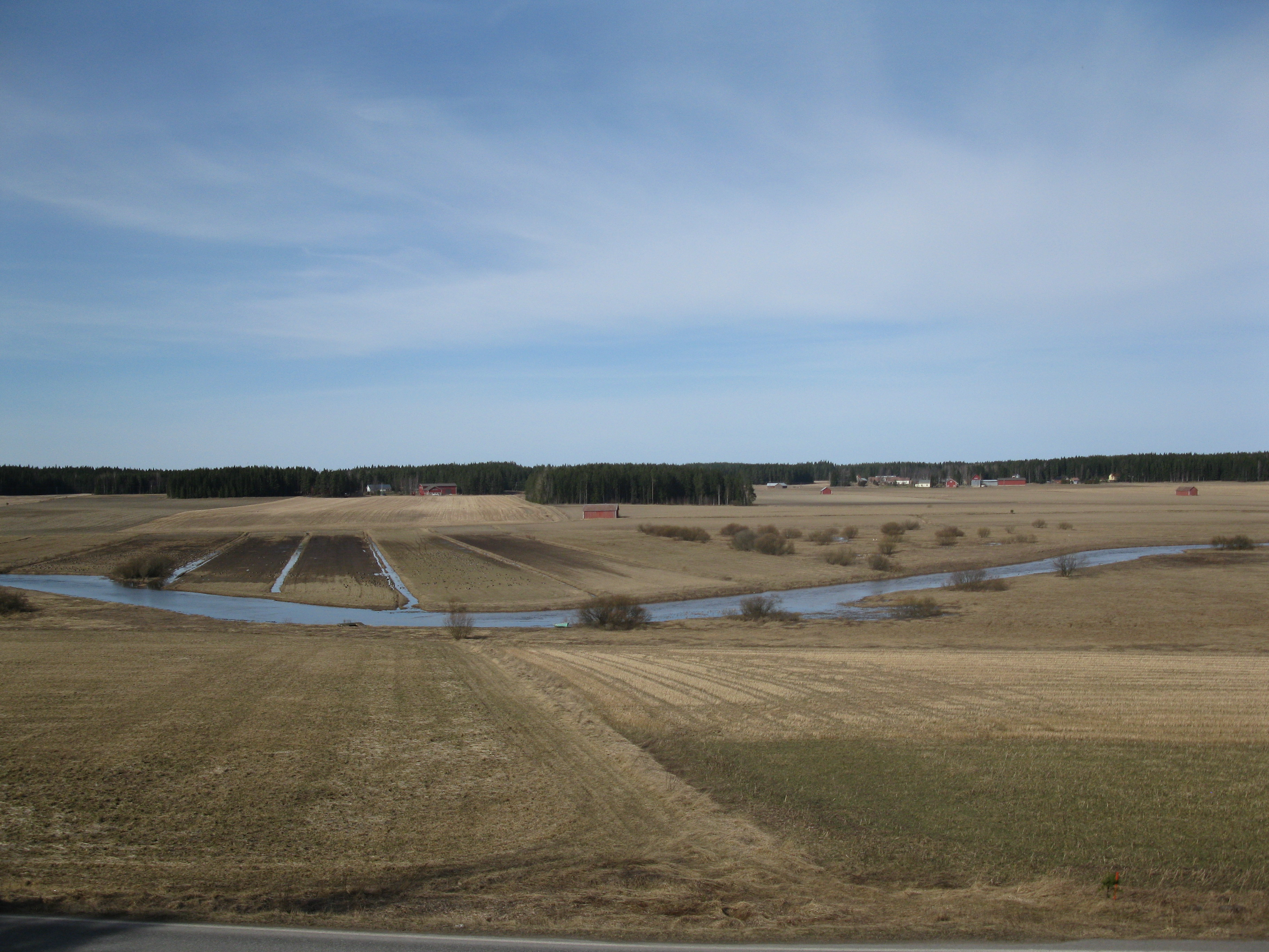 Lintupaju flood meadow in Jokioinen, Finland. Lintupaju is one oh Finnish important bird areas (FINIBA).